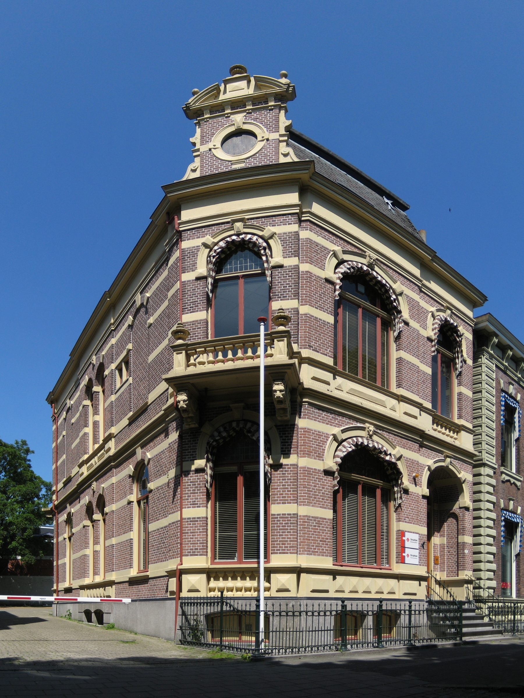 House (1882) in the Dutch city of Groningen.